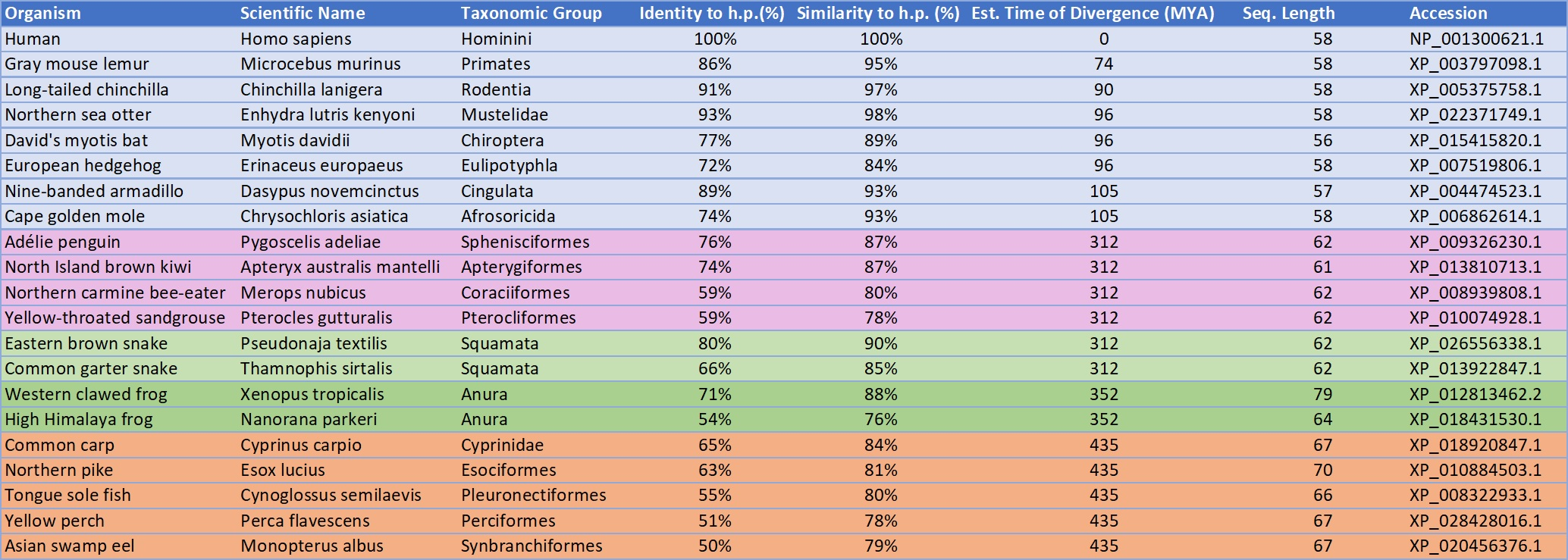 orth table smim11a